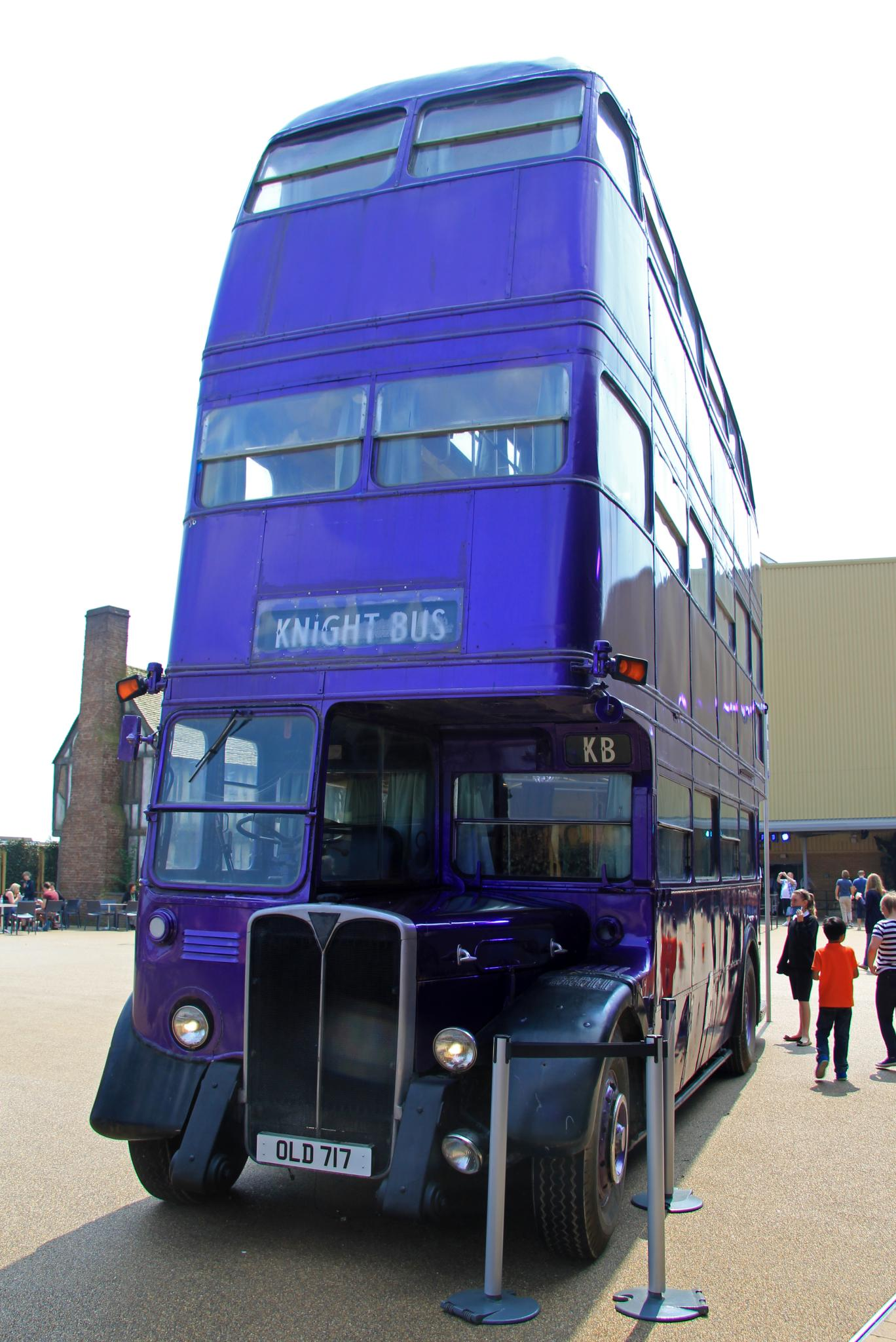 Warner Bros. Studio Tour London: The Making of Harry Potter.